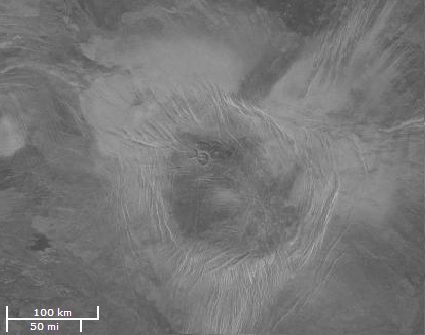 Radar image from Magellan spacecraft of Irnini Mons provided by NASA and the United States Geologic Survey.